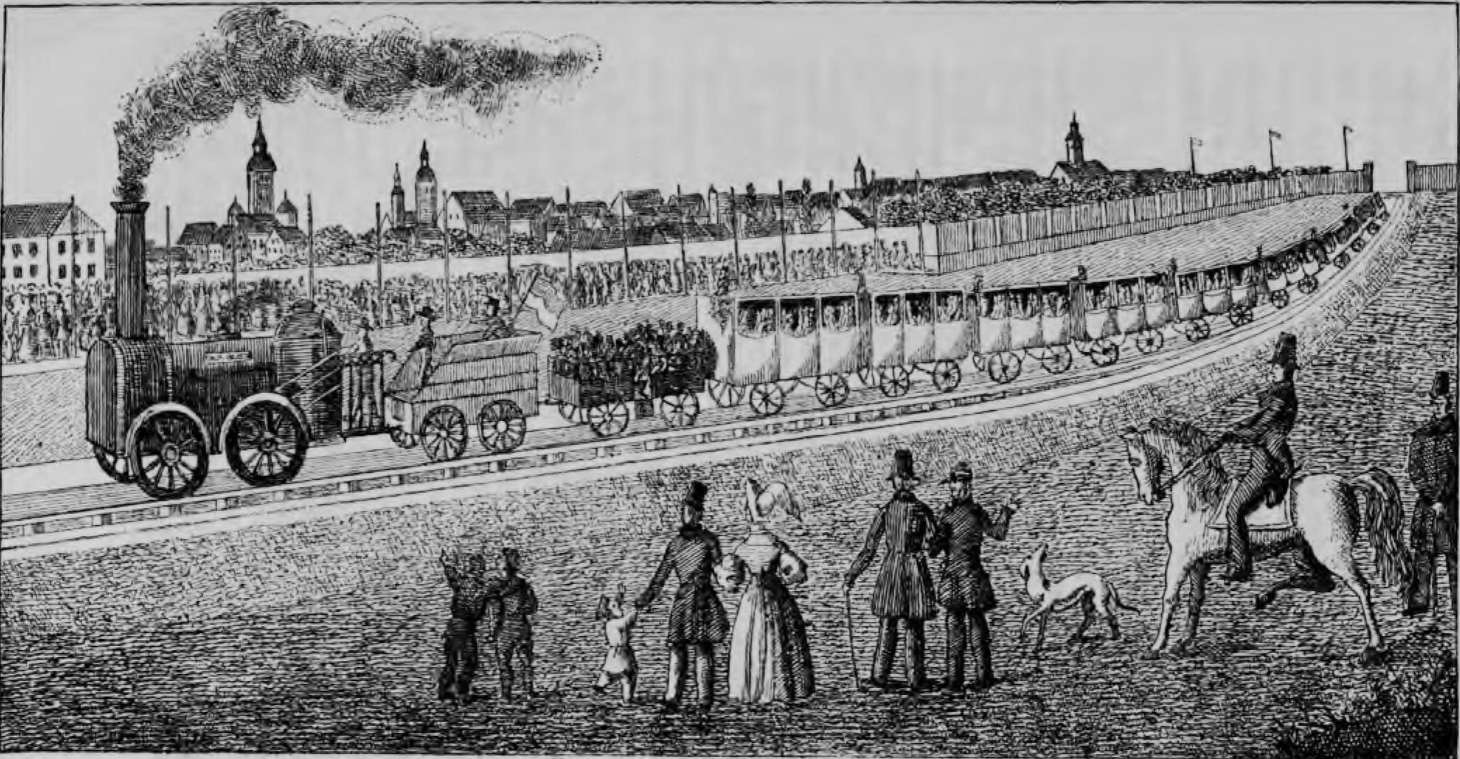 Picture of the german book “Friedrich List und die erste grosse Eisenbahn Deutschlands. Ein Beitrag zur Eisenbahngeschichte” See german Wikisource: Friedrich List und die erste große Eisenbahn Deutschlands Title: Dampfwagenfahrt von Leipzig nach Althen. Getreue Nachbildung eines Kupferstiches aus dem Jahre 1837.